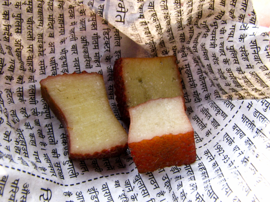 Chhurpi is a dried smoked cheese eaten in the Eastern Himalayas